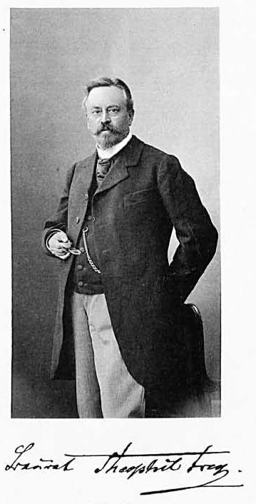 Theophil Frey (Architekt).